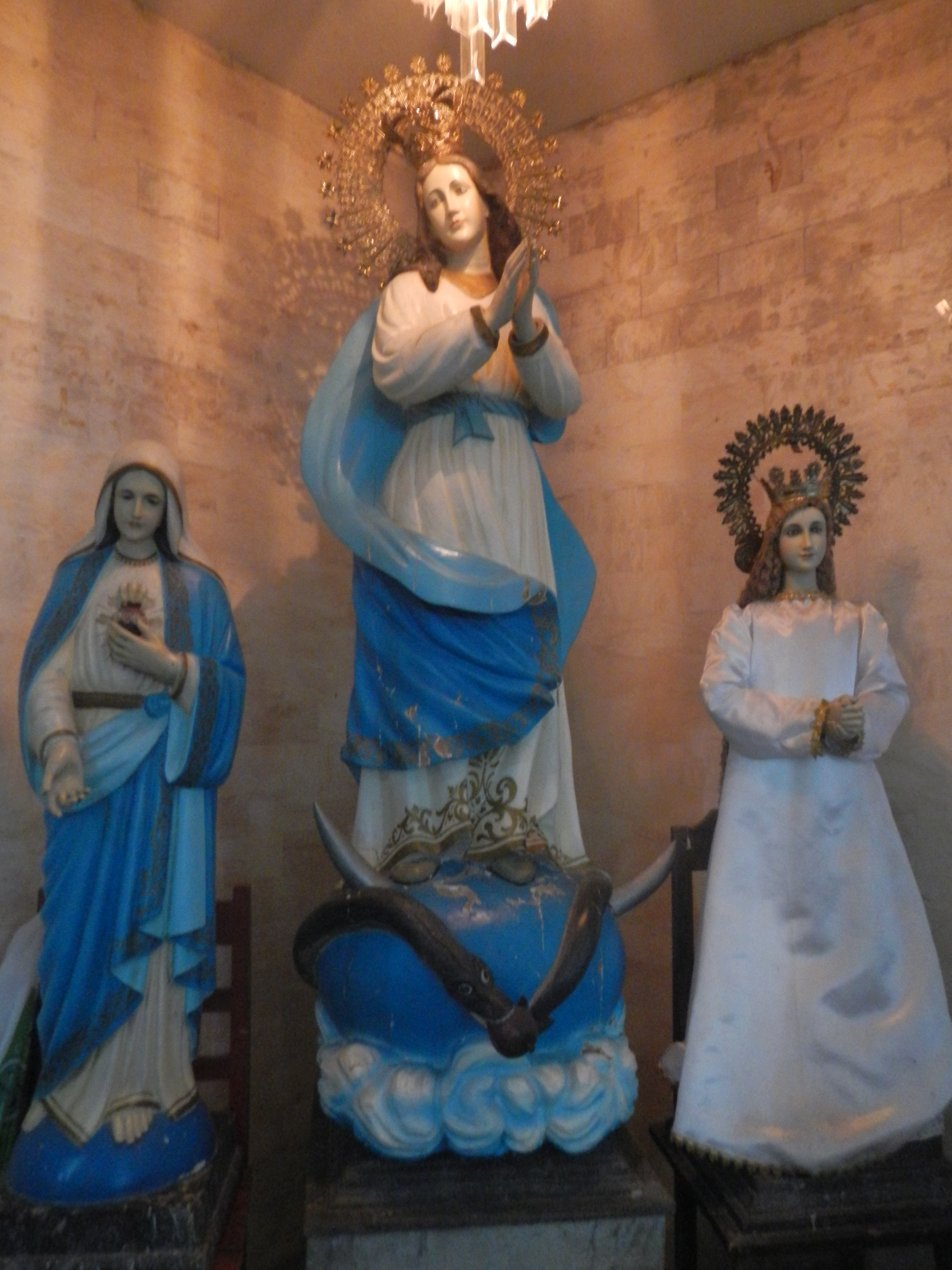 Immaculate Conception Parish Church, Bani, Pangasinan[1][2][3]